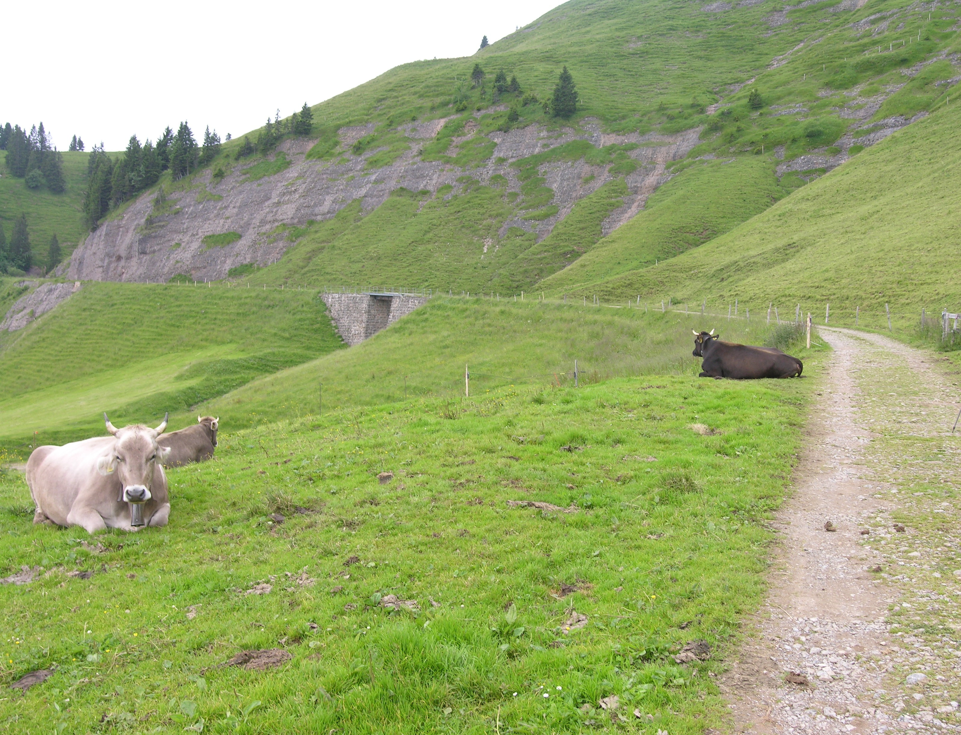 right of way of the former Rigi—Scheidegg-Bahn (RSB), meter gauge, closed in 1931 and scrapped in 1942/43